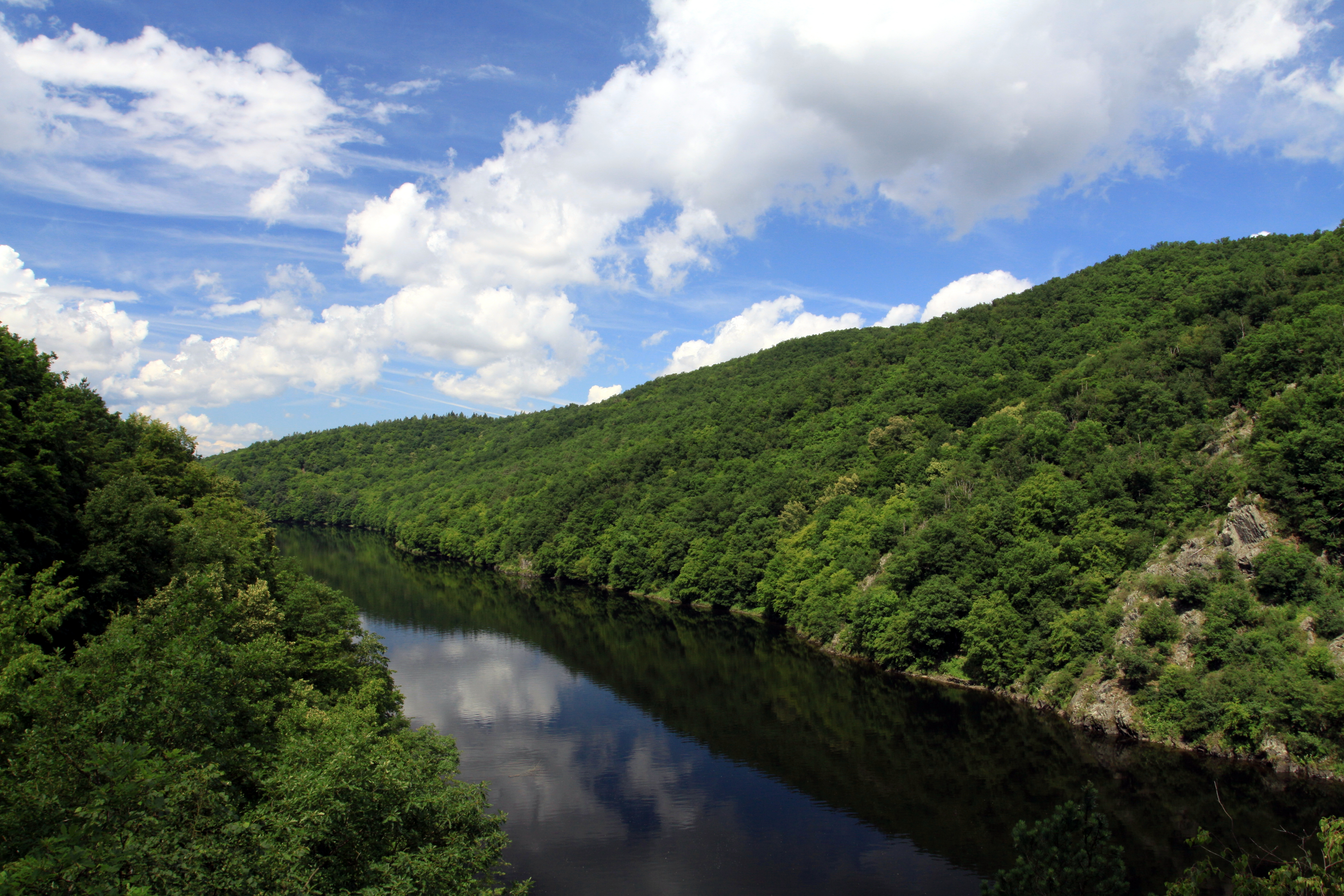 Nature reserve Kobylí dráha in Prague-West District, Czech Republic